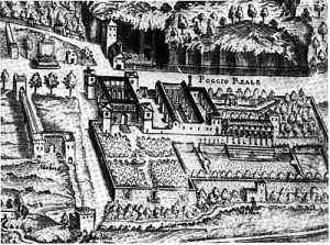 A piece of a map published in 1670 by by Alessandro Baratta showing the Villa Poggio Reale in Naples. (Originally from poggioreale)